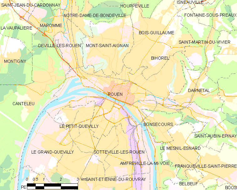 Map of French municipality Rouen